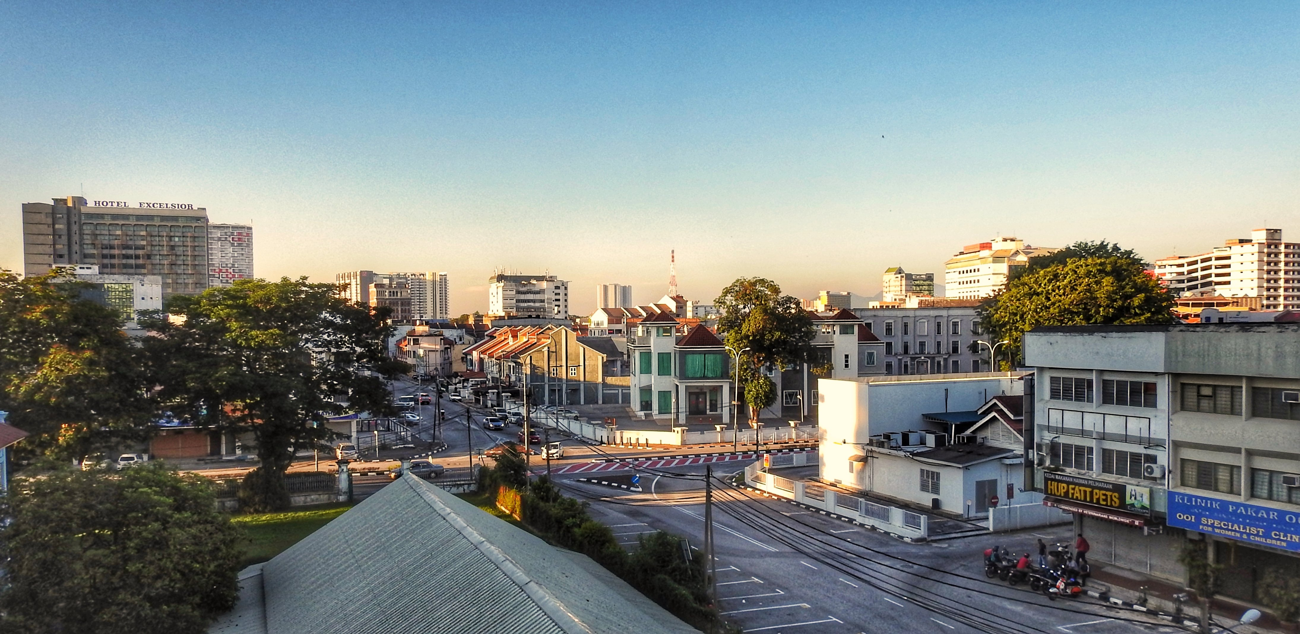 Good Morning, Ipoh!